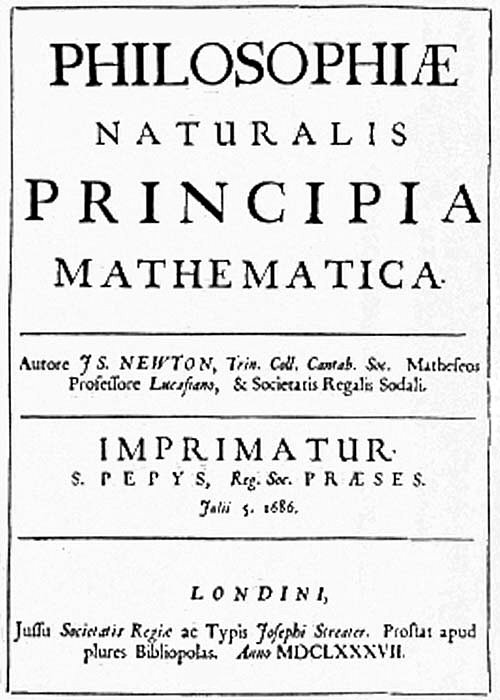 Isaac Newton: Principia Mathematica